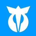 Ichikai Tochigi chapter